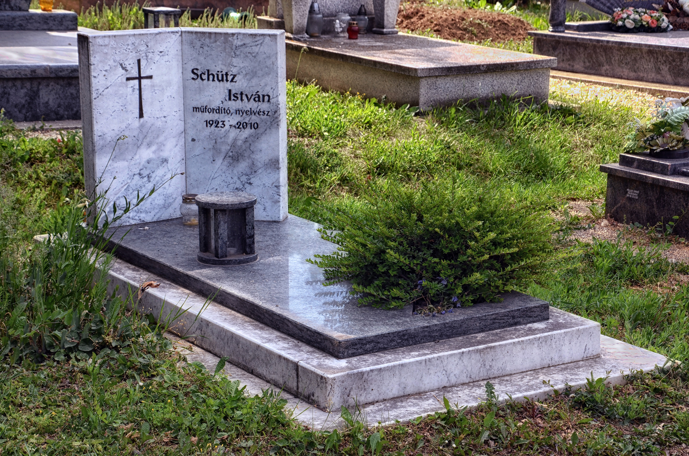 Gravestone of István Schütz Hungarian linguist, translator, balkanologist in the Üröm cemetery